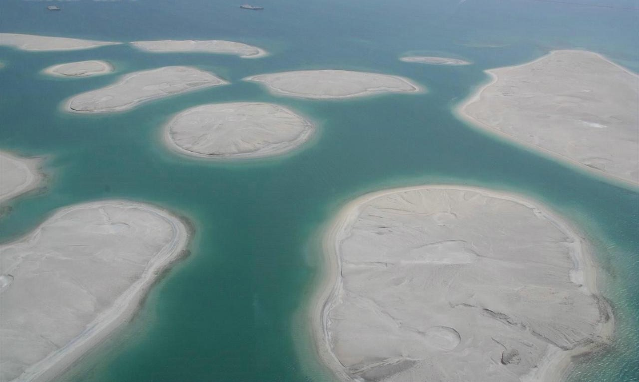 This is a photo showing some of the islands in The World in Dubai, United Arab Emirates as seen from the air on 1 May 2007.